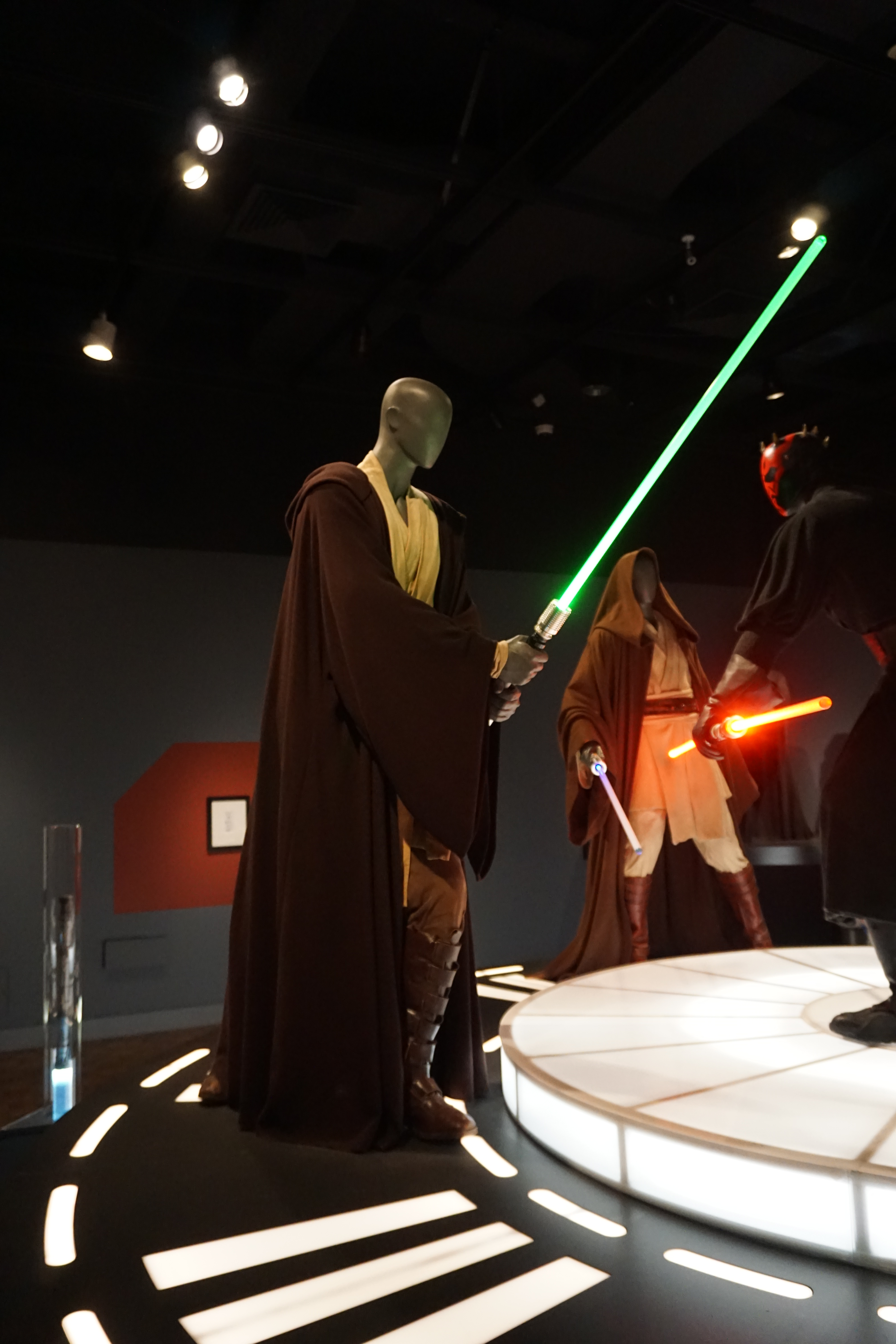 Qui-Gon Jinn's Jedi robes from Star Wars: Episode I – The Phantom Menace on display at the Star Wars and the Power of Costume traveling exhibit at the Detroit Institute of Arts in Detroit, Michigan (United States).